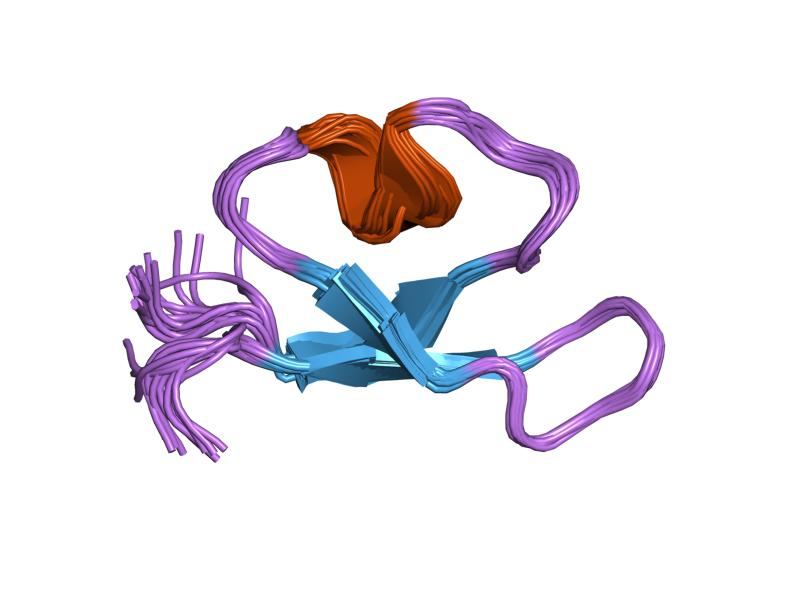 Cartoon representation of the molecular structure of protein registered with 1p8b code.